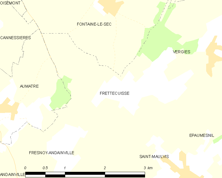 Map of French municipality Frettecuisse